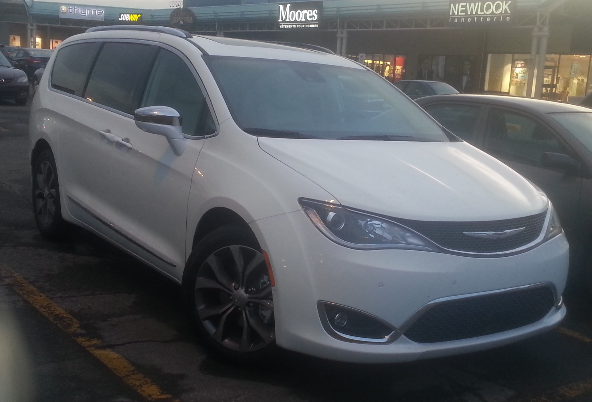 2017 Chrysler Pacifica photographed in Pointe-Claire , Québec, Canada.